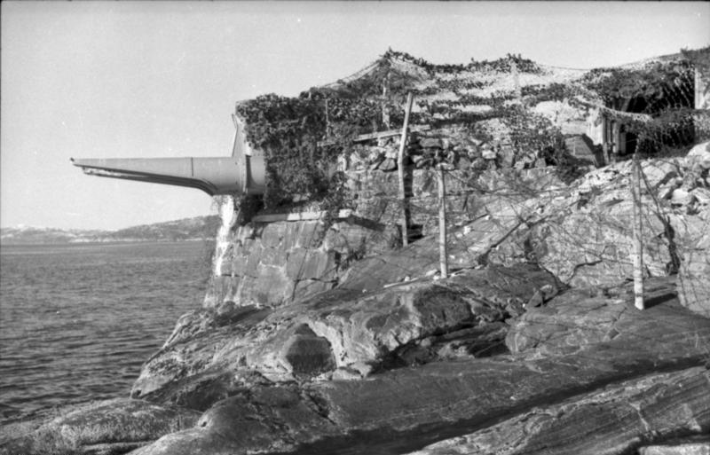 Torpedo battery established at Hysneståa at Hysnes fortress in April 1940 w/the rear torpedo tube (4 x 53 cm) from the destroyer Paul Jacobi[1][2]